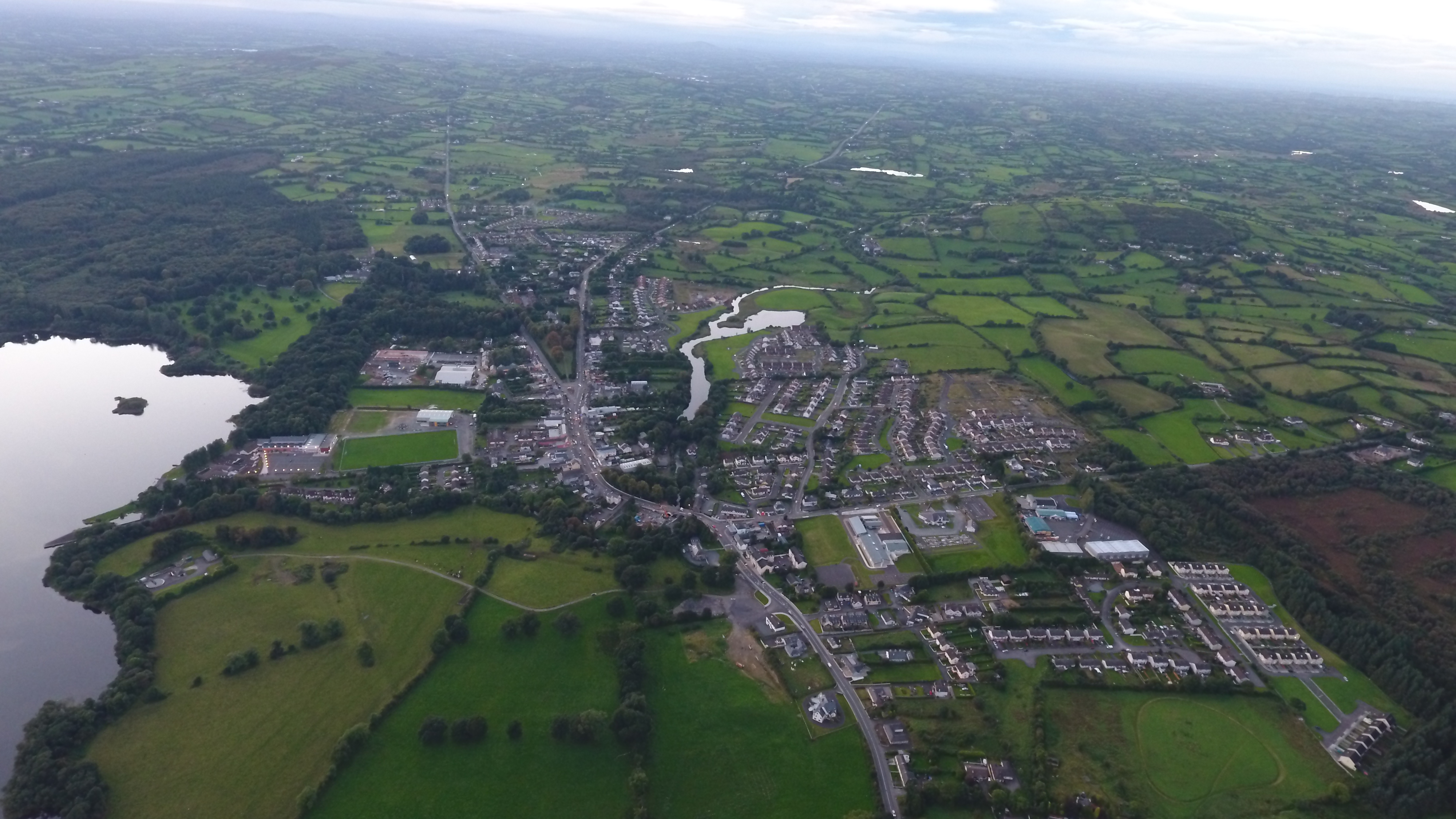 Arial view of Virginia Co. Cavan